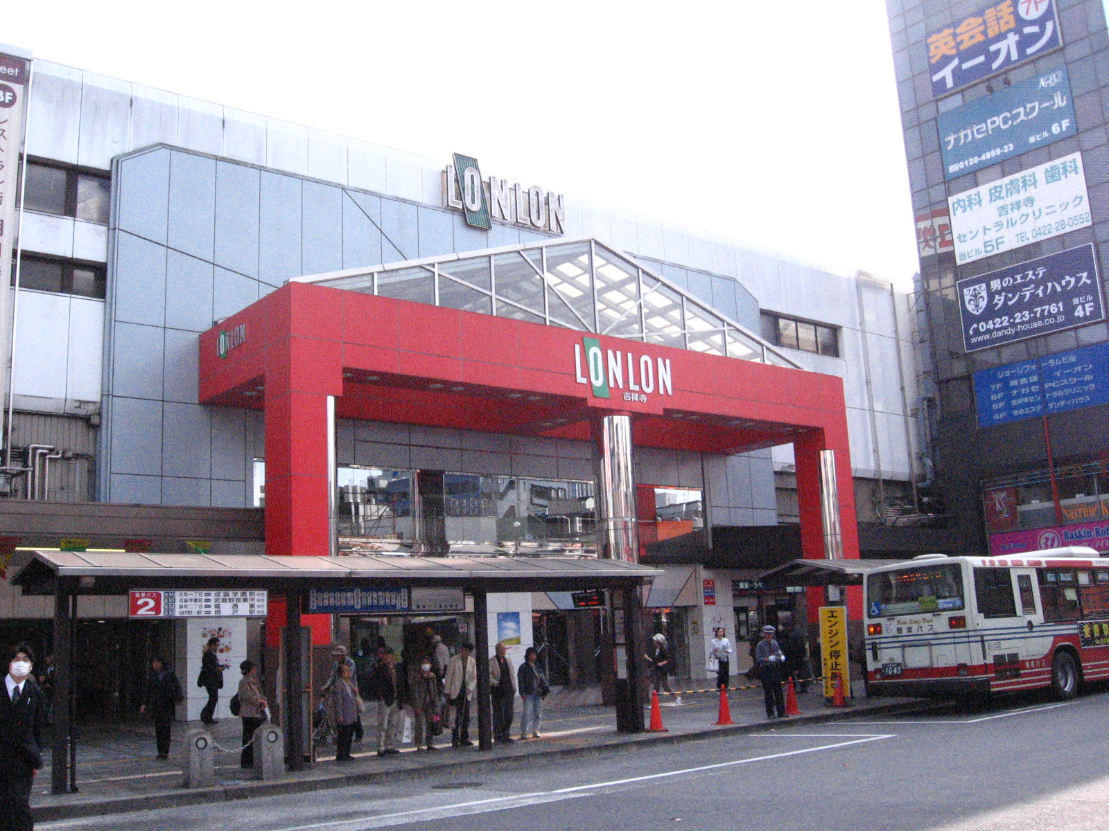 Kichijoji station center building "Lon-Lon"